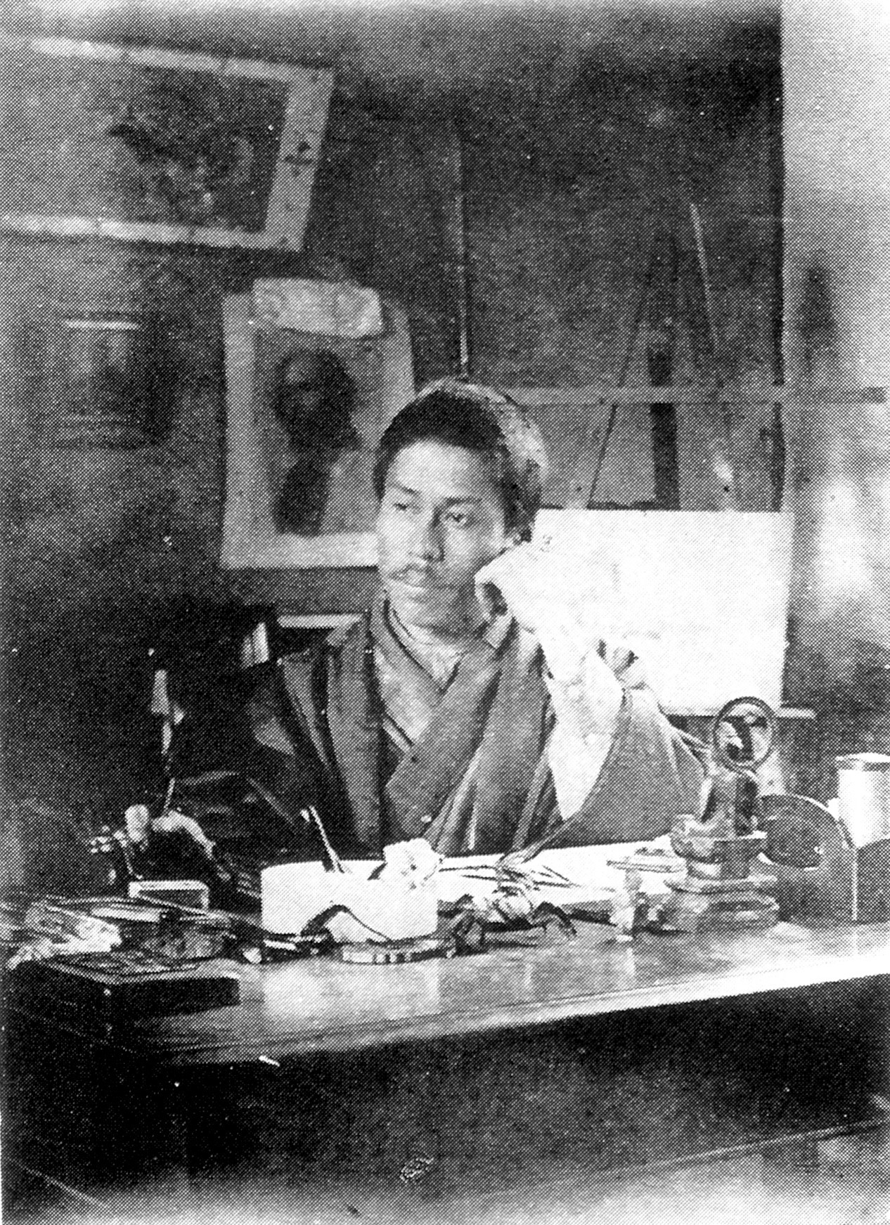 Harada Naojiro at his desk